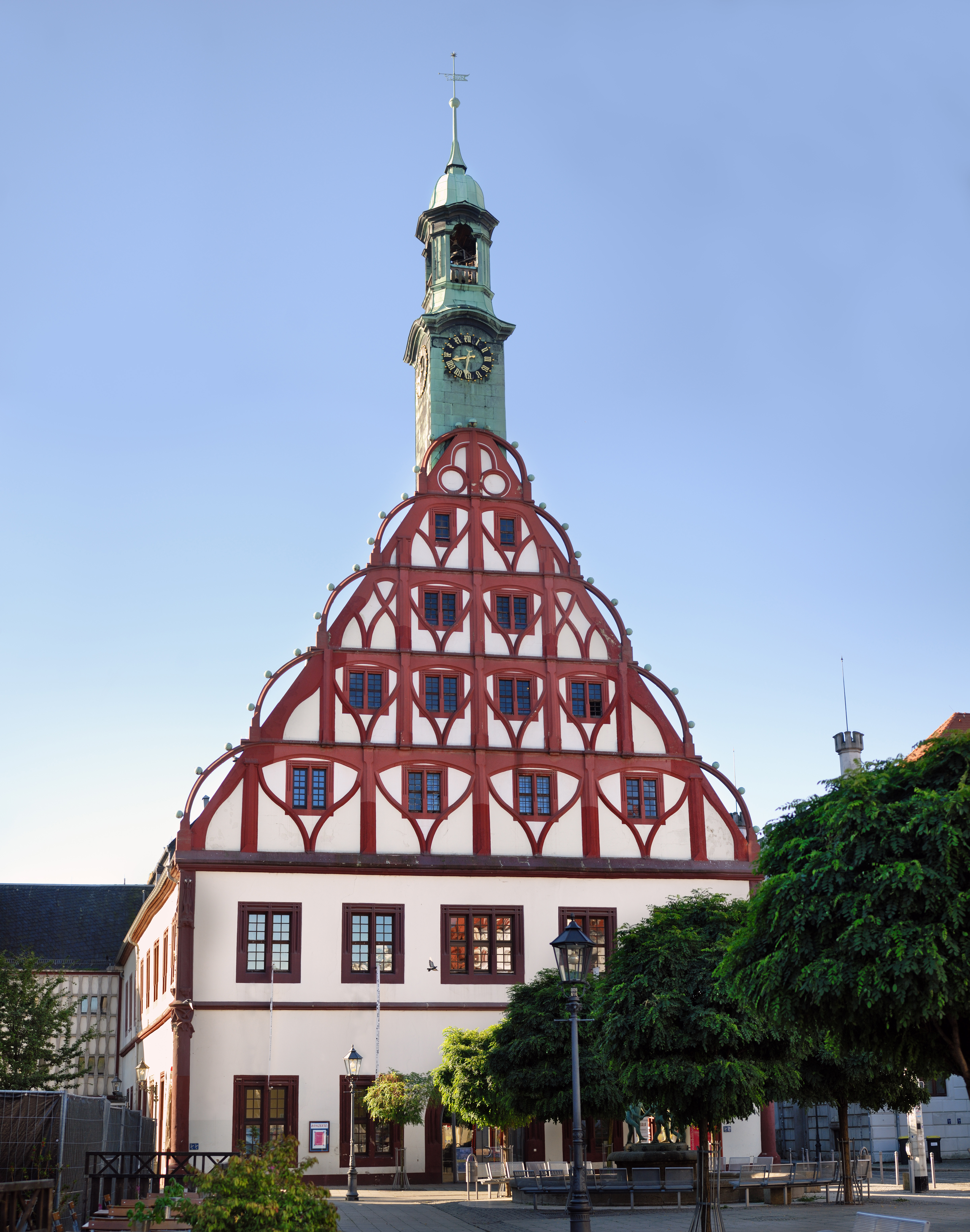 This image shows the theatre in Zwickau, Germany. It is a seven segment panoramic image.